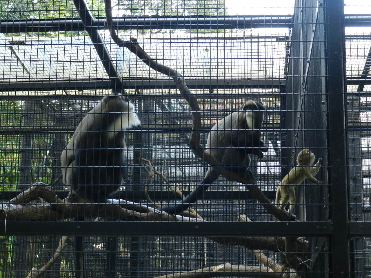 De Brazza’s Monkey in Hong Kong Zoological and Botanical Gardens